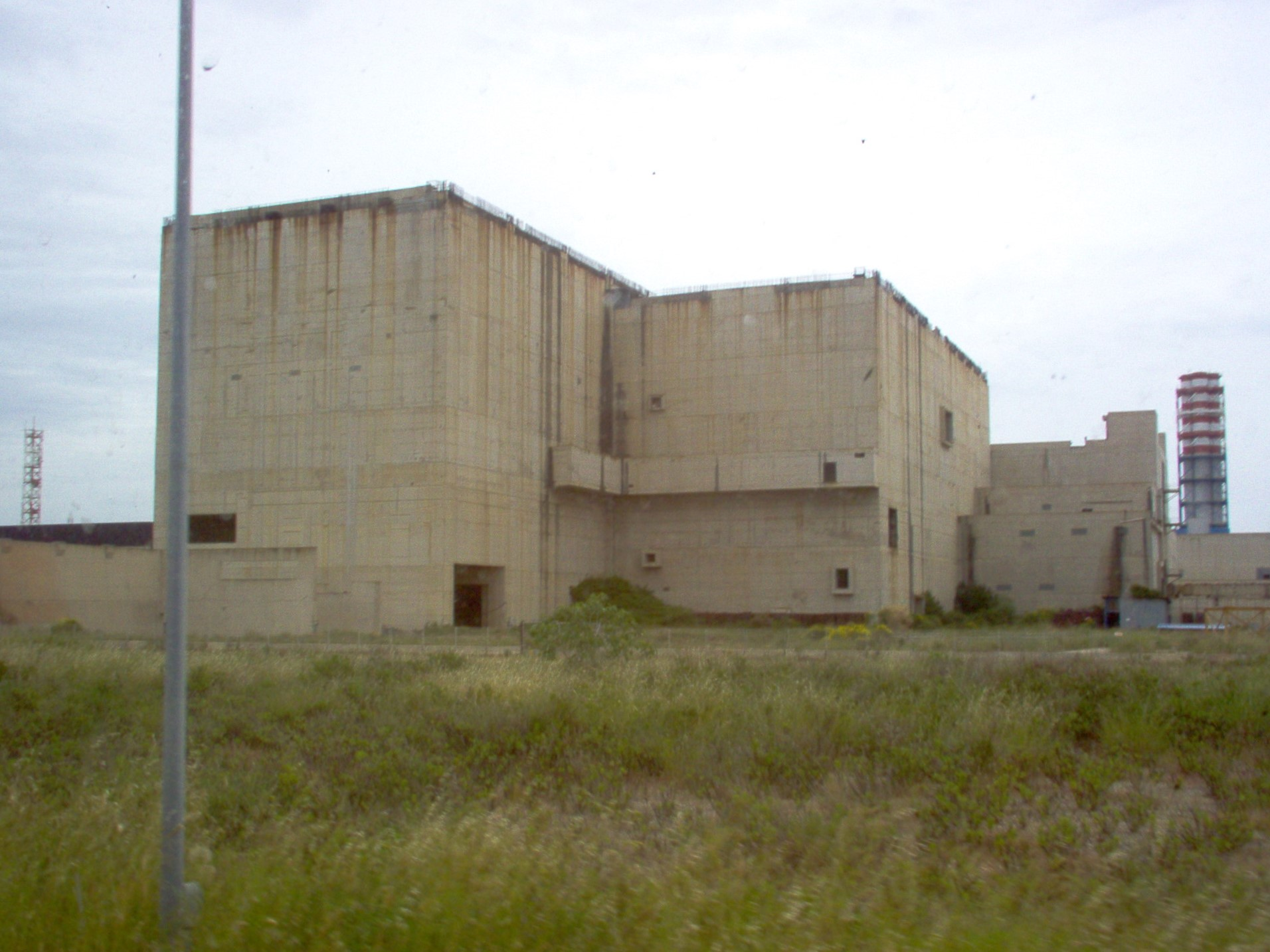 The Montalto di Castro power station (Lazio, Italy) on display during a school trip